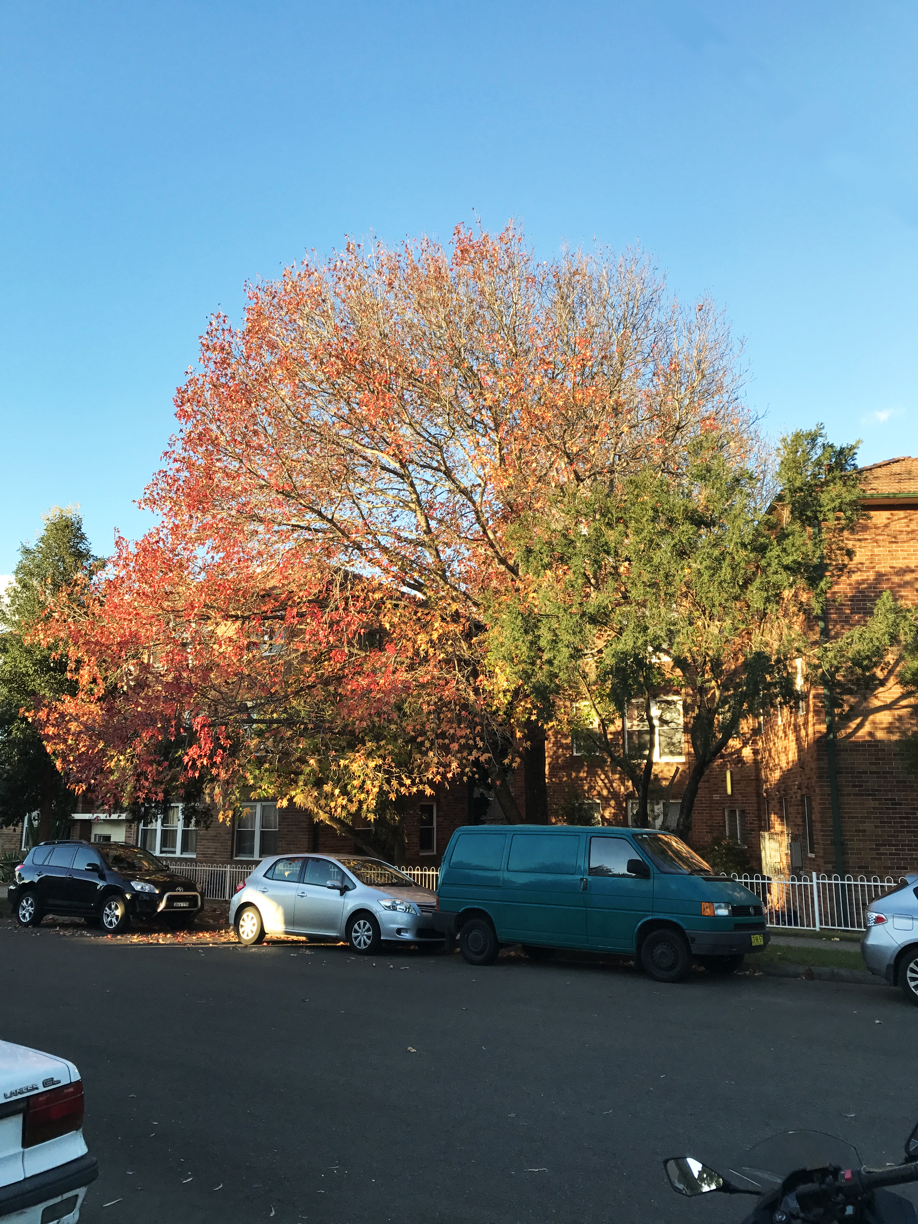 Autumn Tree in New South Wales